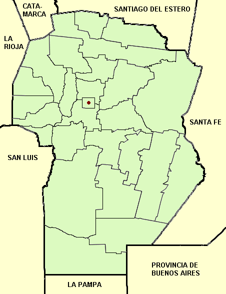 It shows the administrative division of Córdoba province in Argentina, and its capital.